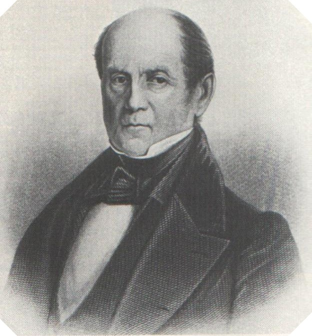 Period illustration - University of Vermont